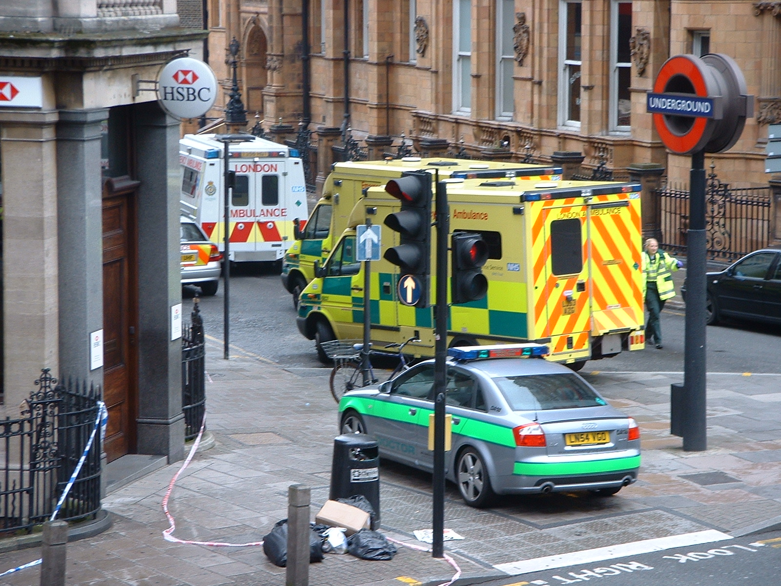 Ambulances at Russell Square, London on the 7th July after the bombings